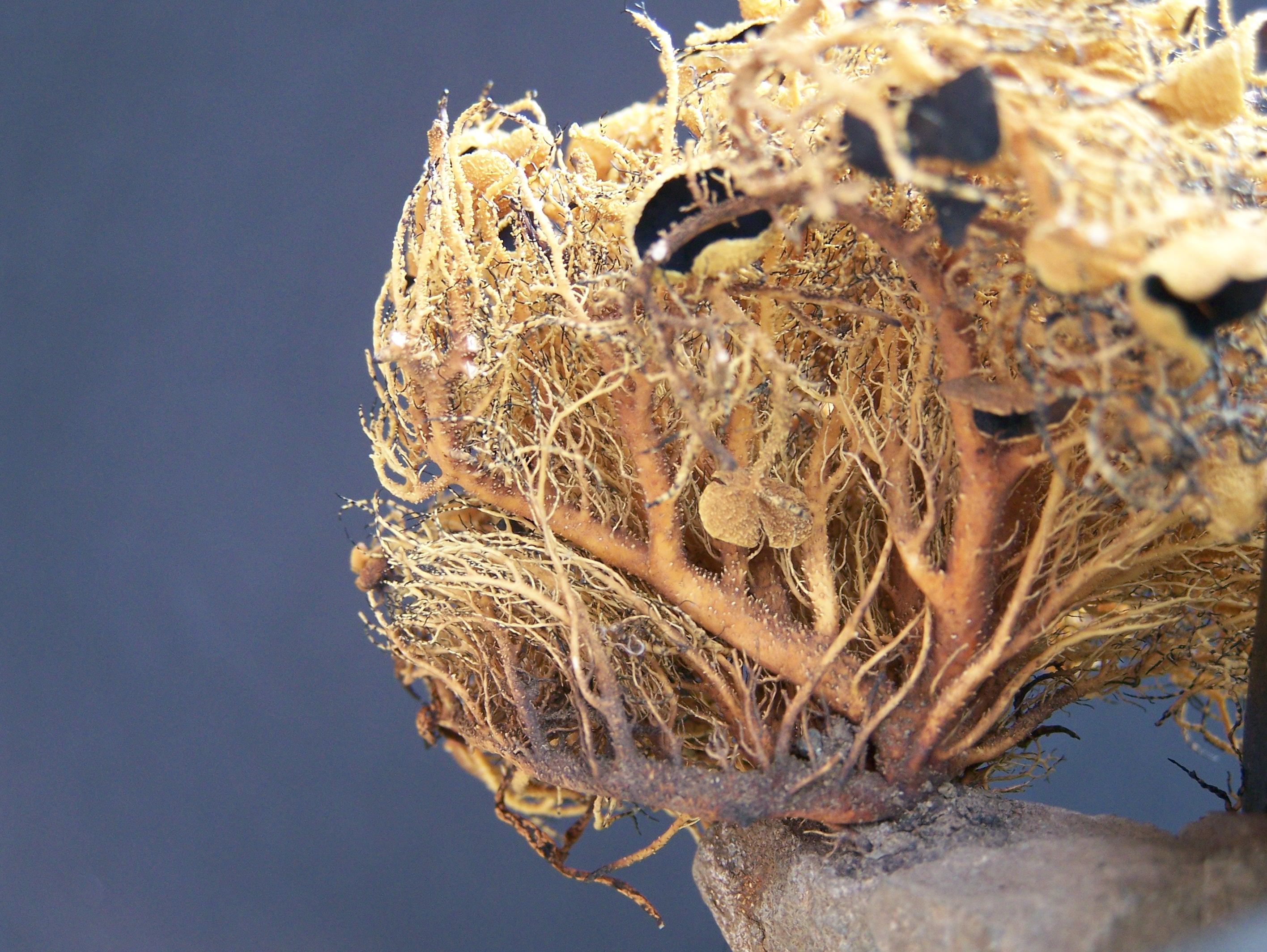 Scientific names Fungi - Ascomycota - Ascomycetes - Lecanorales - Parmeliaceae Zenker, 1827 – Usnea Species: Usnea antarctica Du Rietz, 1926. Common name: Antarctic shrub lichen. On rock (not in situ); leg./det. A.Bick (1982). Synonymy: Neuropogon antarcticus (Du Rietz) I.M. Lamb, J. Linn. Soc., Bot. 52: 210 (1939) Neuropogon antarcticus f. sorediifera (Cromb.) I.M. Lamb, (1939) Neuropogon insularis I.M. Lamb, (1939) Neuropogon melaxanthus var. sorediifera Cromb., (1876) Usnea crombiei C.W. Dodge [as 'Crombii'], B.A.N.Z. Antarct. Exped. Res. Rep. 7: 212 (1948) Usnea crombiei var. sublaevis C.W. Dodge, B.A.N.Z. Antarct. Exped. Res. Rep. 7: 213 (1948) Usnea insularis (I.M. Lamb) C.W. Dodge, (1948) Usnea sulphurea var. sorediifera (Cromb.) Vain., Rapports Scientifiques belges, Resultats Voyage S.Y. Belgica, 1897-1899 Bot. (Anvers)(Lichens): 11 (1903) This lichen lives very long: an age of 200 years is not unusual, the record is about 4500 years.